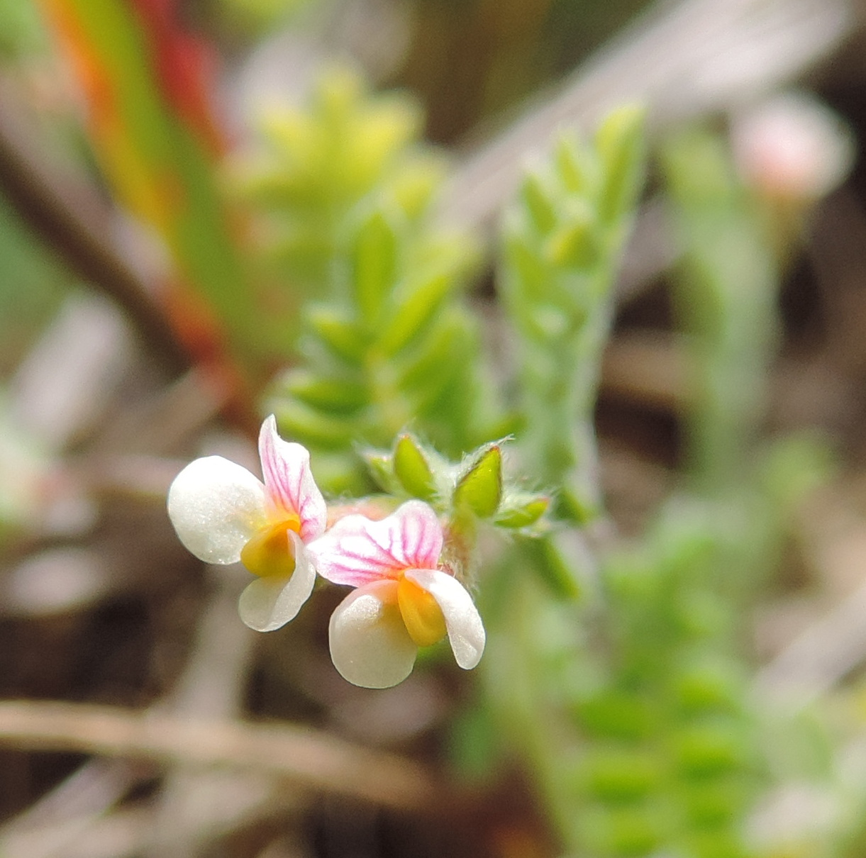 Ornithopus perpusillus near Kolobrzeg in N Poland. Flowers